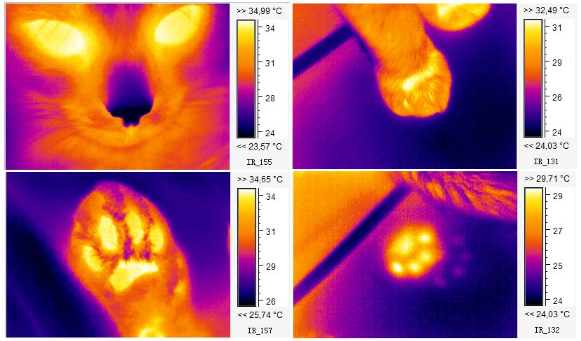 Thermography of my cats. Wavelength: 8 to 14 micrometer, Sensor: Microbolometer 320x240, Lens: Germanium triplet For those who are not browsing the Thermography set: See more at